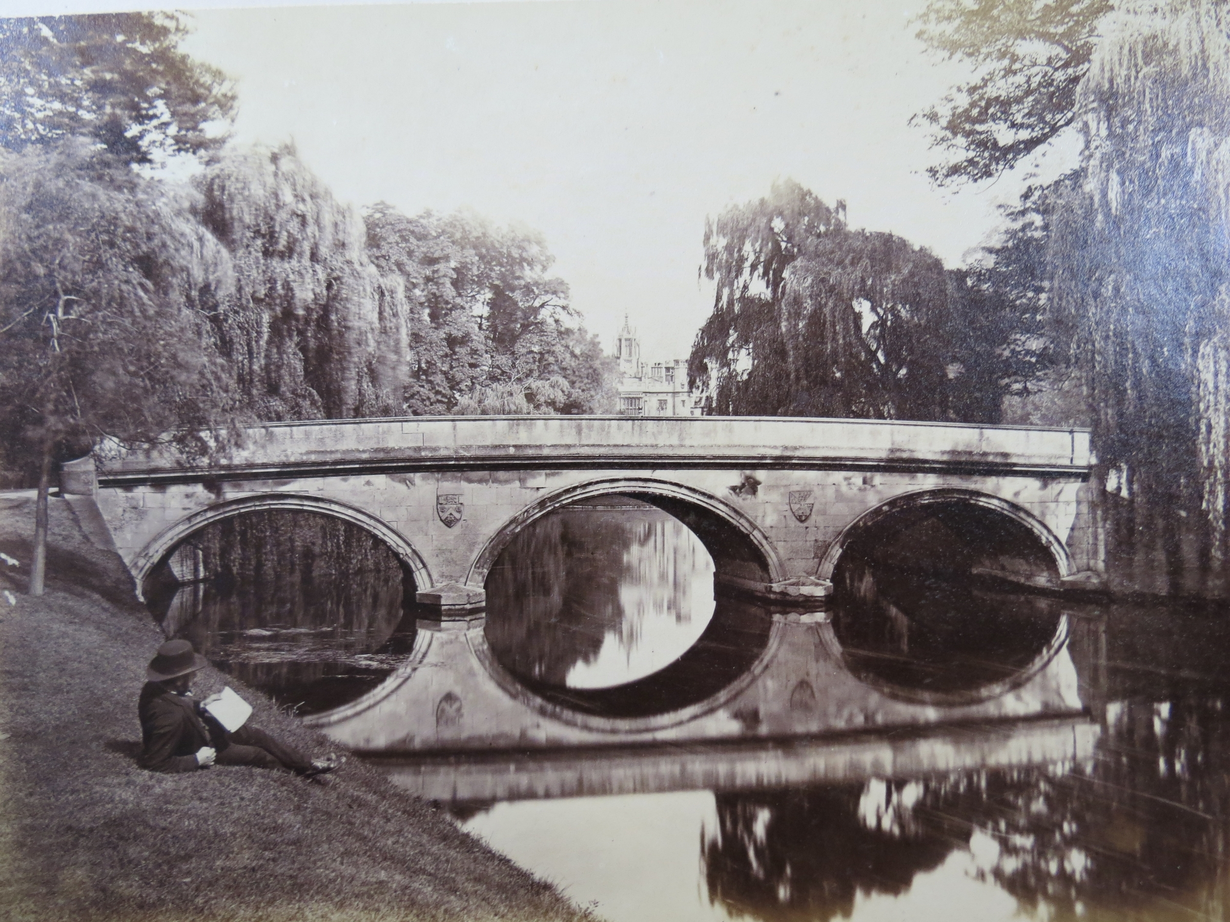 Bridge, Trinity College, Cambridge University, circa 1870. Image taken from original albumen print from a bound album of 58 Cambridge University photographs. Original 19th century album in the possession of Kimberly Blaker, New Boston Fine and Rare Books.